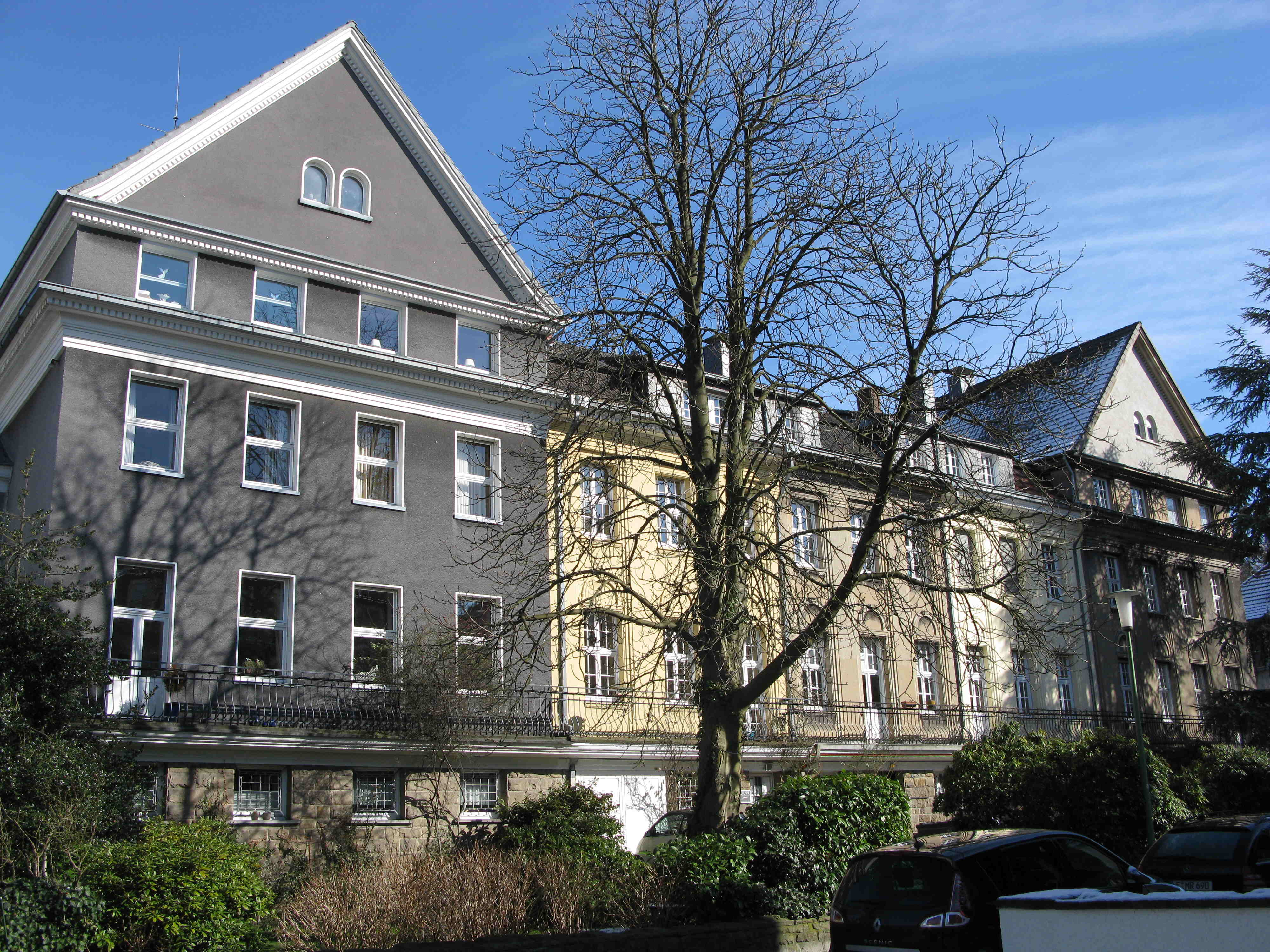 Essen-Moltkeviertel; Semperstrasse; architect: Georg Metzendorf; built in 1912